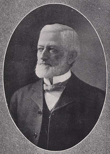 Hiram Hadley portrait